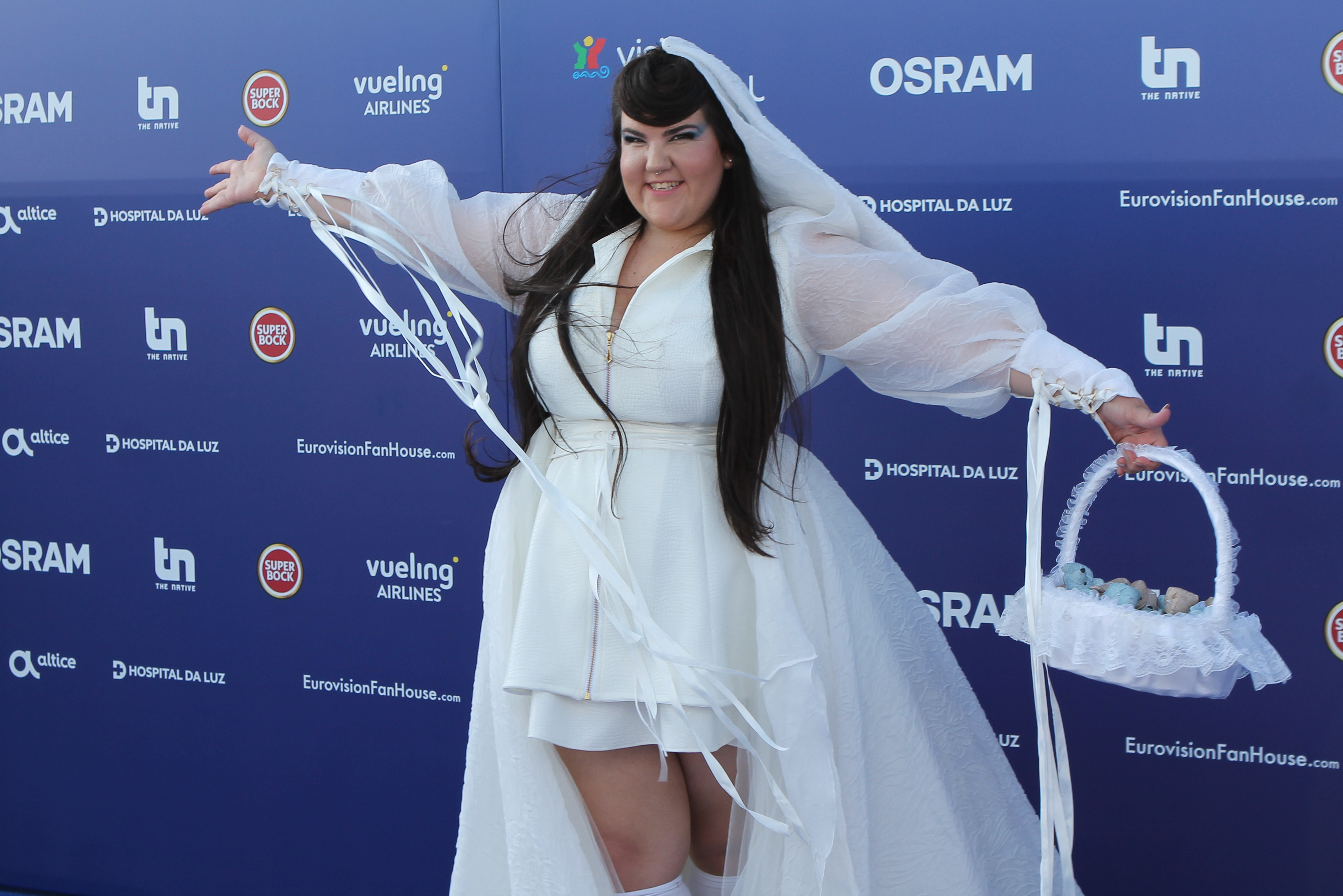 Netta Barzilai at the Eurovision Song Contest 2018 Blue Carpet event, 6 May 2018.